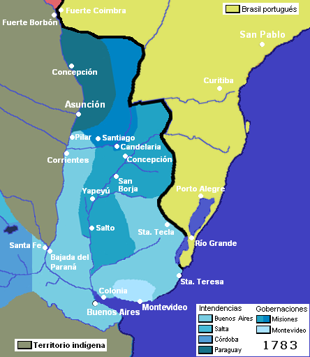 The administrative divisions in and around the Banda Oriental in 1783.